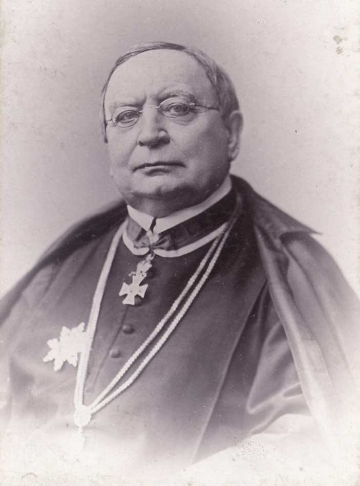 Ernest Hauswirth (1818–1901), Abbot of the Schottenstift in Vienna